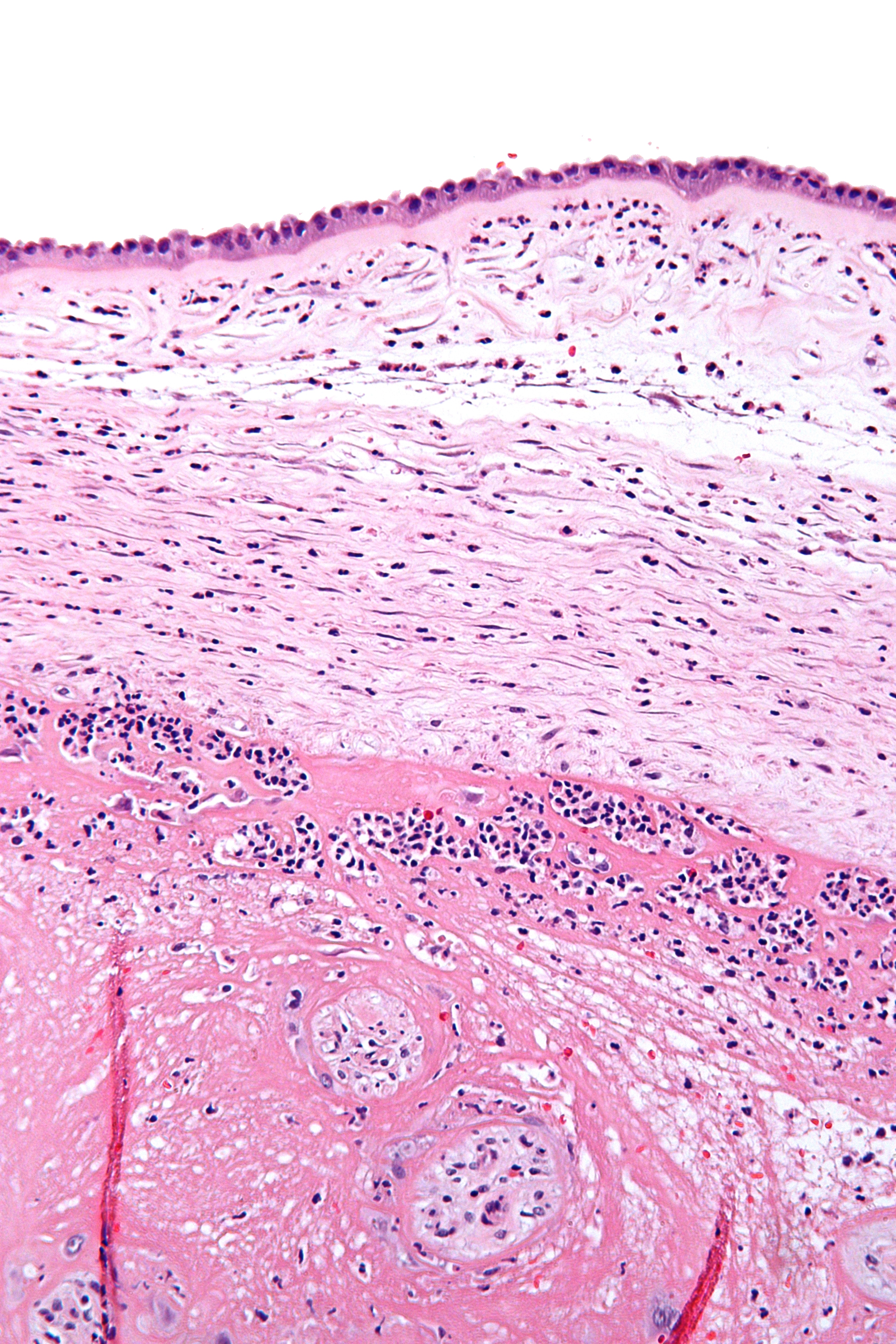 High magnification micrograph chorioamnionitis. H&E stain. The amnion is seen at the very top of the image and composed of a simple cuboidal epithelium and a layer of eosinophilic (pink) connective tissue. It has a few scattered neutrophils - which makes the diagnosis of chorioamnionitis. Below the amnion is a cleft and then the chorion, which also has neutrophils. The fetus (baby) - not shown - would be over the image (and surrounded by amnionic fluid). The pattern of inflammation seen in this image is typical of chorioamnionitis; most chorioamnionitis results from an ascending infection, i.e. the microorganisms ascend from the vagina/cervix. Related images Low mag. Intermed mag. High mag. Very high mag. Very high mag.